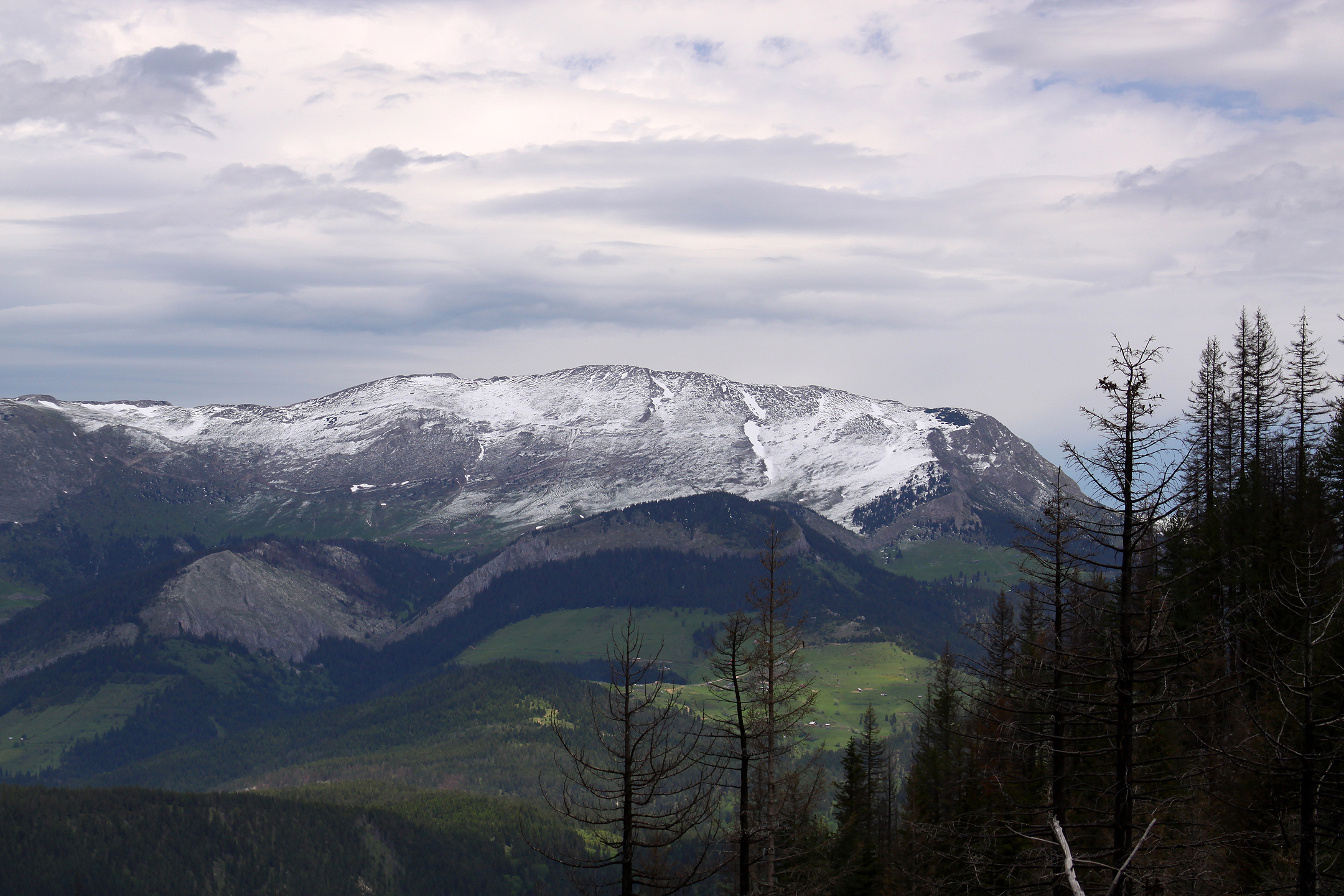 Hajla mountain 2403 m, in zoom from Drelaj lake in Liqenat